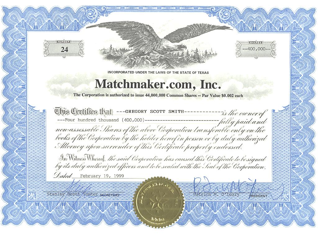 Patrick O'Leary Corporate Photo.